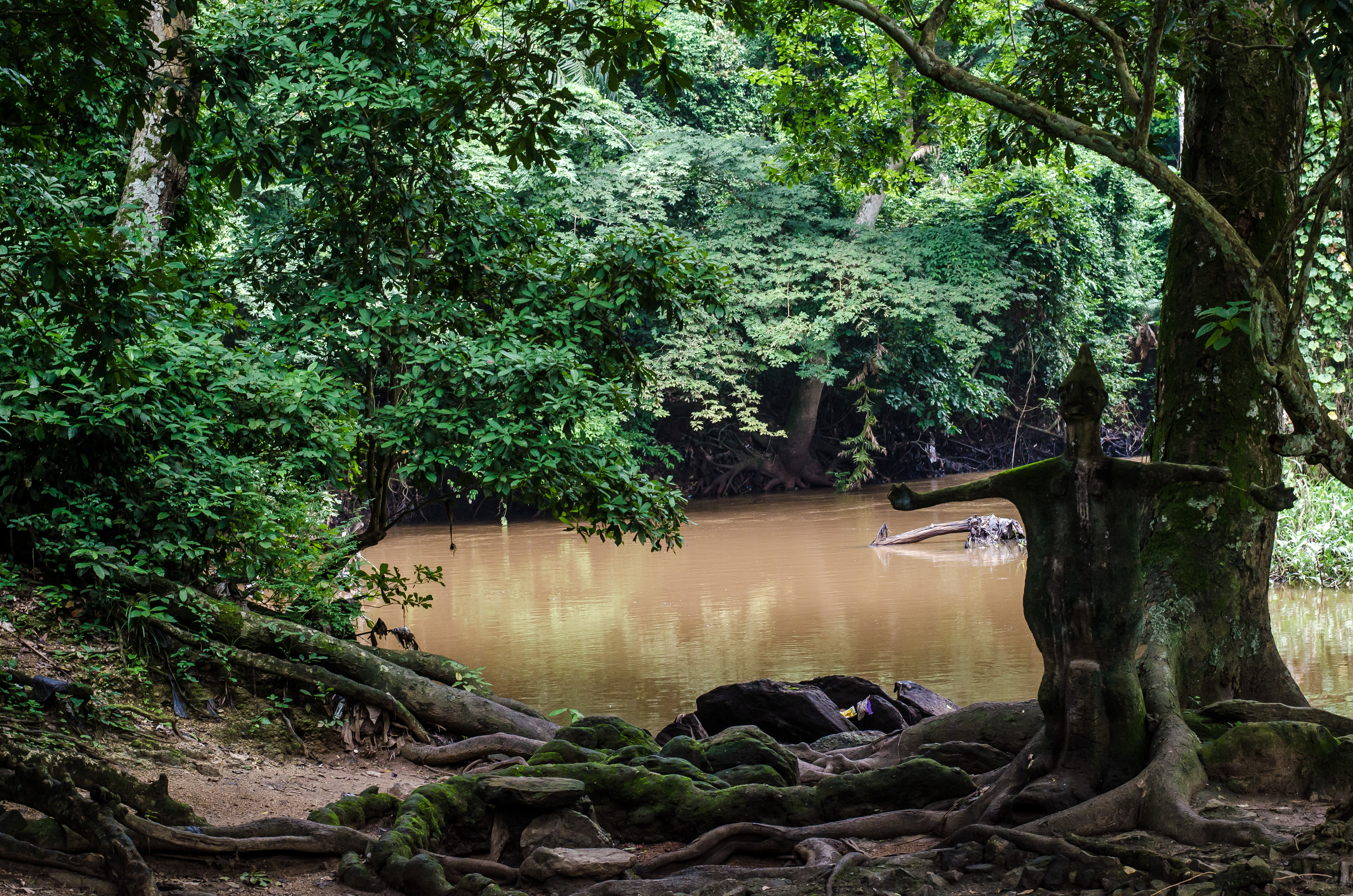 River-side Shrine and Sacred Grove Of Oshun